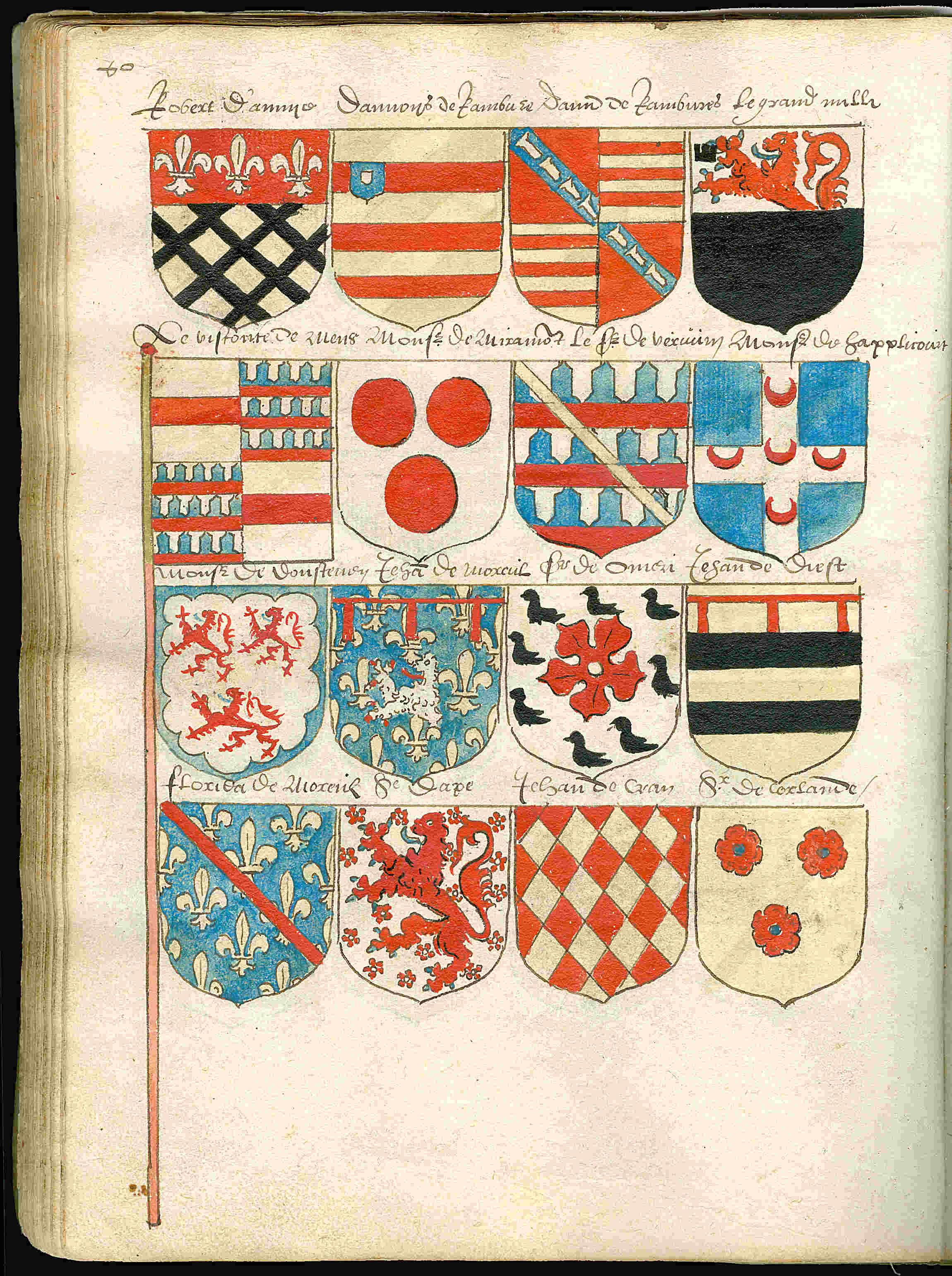 Page 60 from a copy of the Beyeren armorial / Wapenboek Beyeren from ca. 1600. The original Beyeren armorial from 1405 can be viewed at the website of the KB